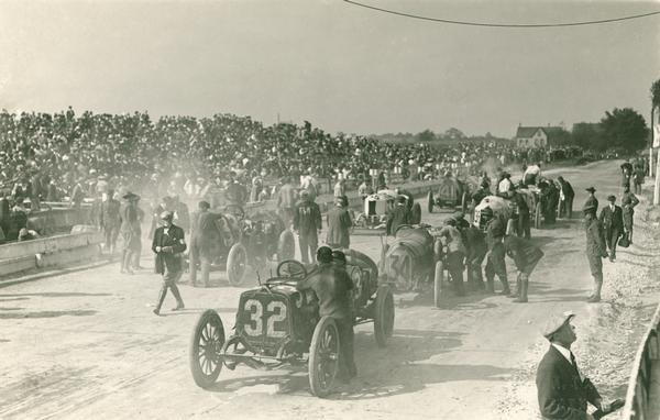 Drivers make last minute adjustments to their automobiles at the start of the 1912 American Grand Prize race in Wauwatosa, Wisconsin. #41 (winner) - Caleb Bragg, Fiat, #32 - Louis Fontaine, Lozier; #34 - Hughie Hughes, Mercer.